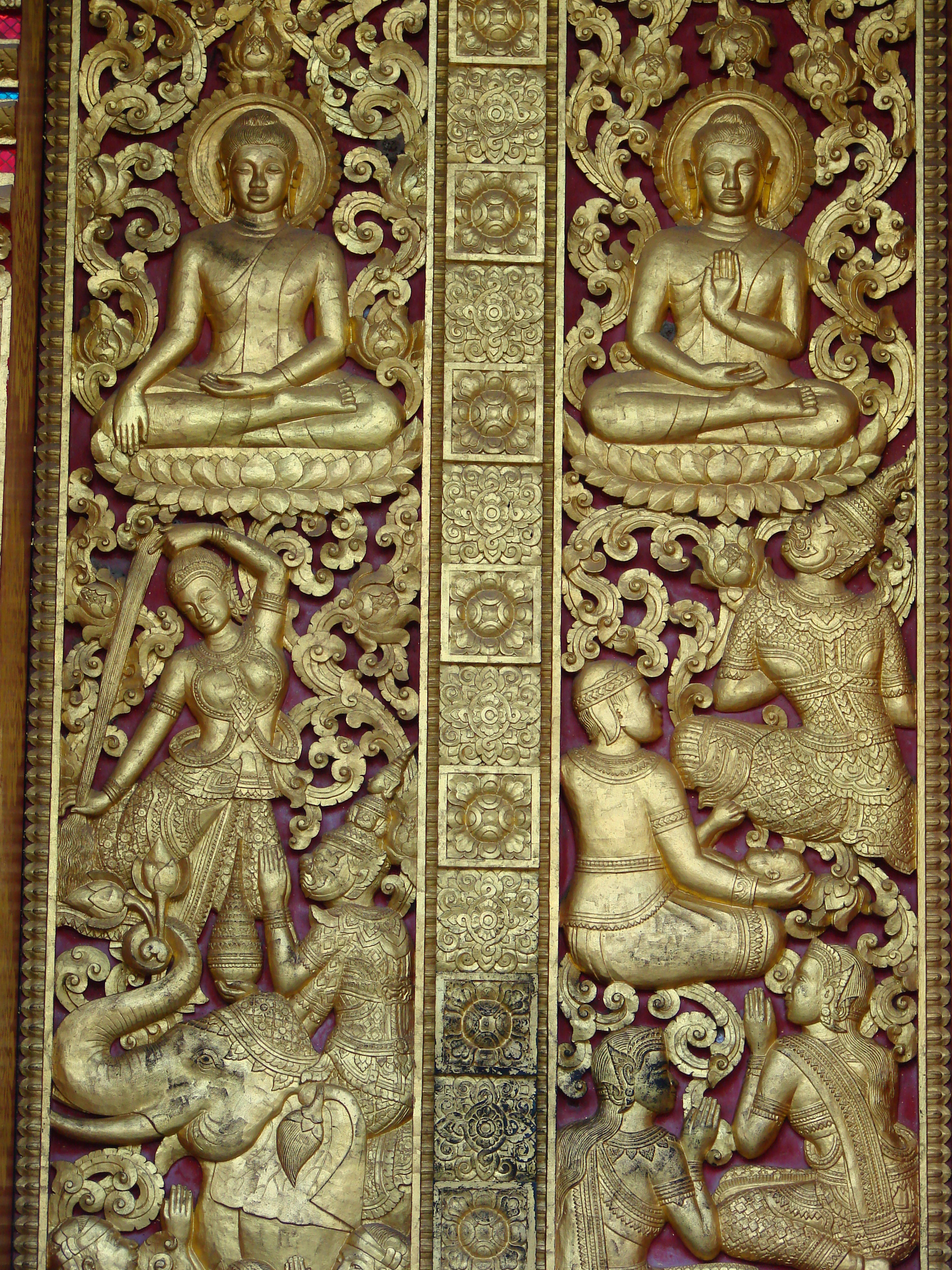 The gilded and carved wooden façade of Wat Pa Phai monastery in Luang Prabang, Laos is more than 100 years old and is a classic Thai-Lao fresco. The name Wat Pa Phai means “Monastery of the Bamboo Forest.” Various records assign different dates to this monastery: the French historian Henri Parmentier, thought that Wat Pa Phai was built in 1645. However, the Luang Prabang historian Chao Khaminanh Vongkot Rattana, placed its construction date much later, at 1815.